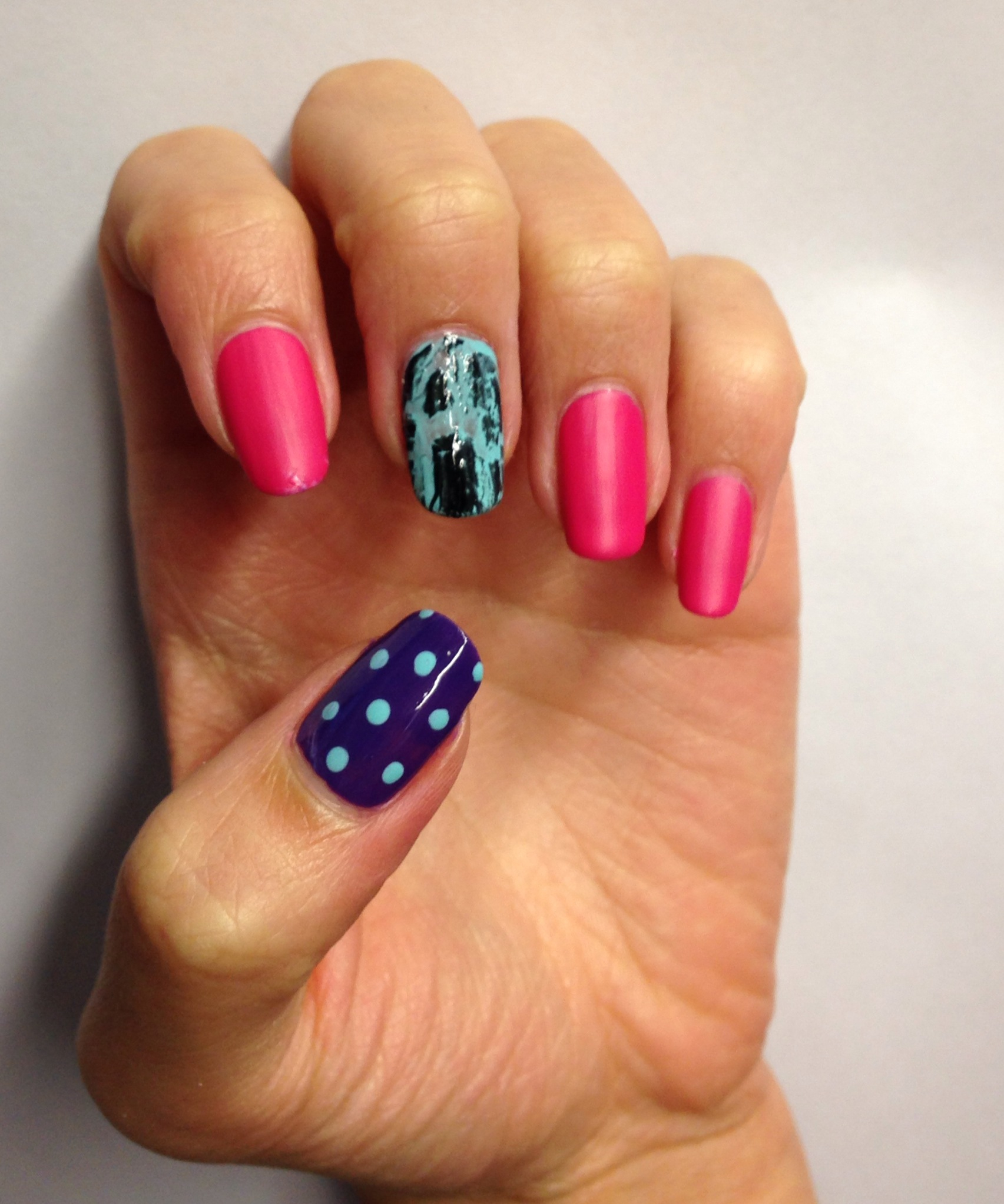 Nail art techniques, cracked and mat effect